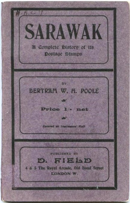 The cover of Bertram Poole's work "Sarawak".